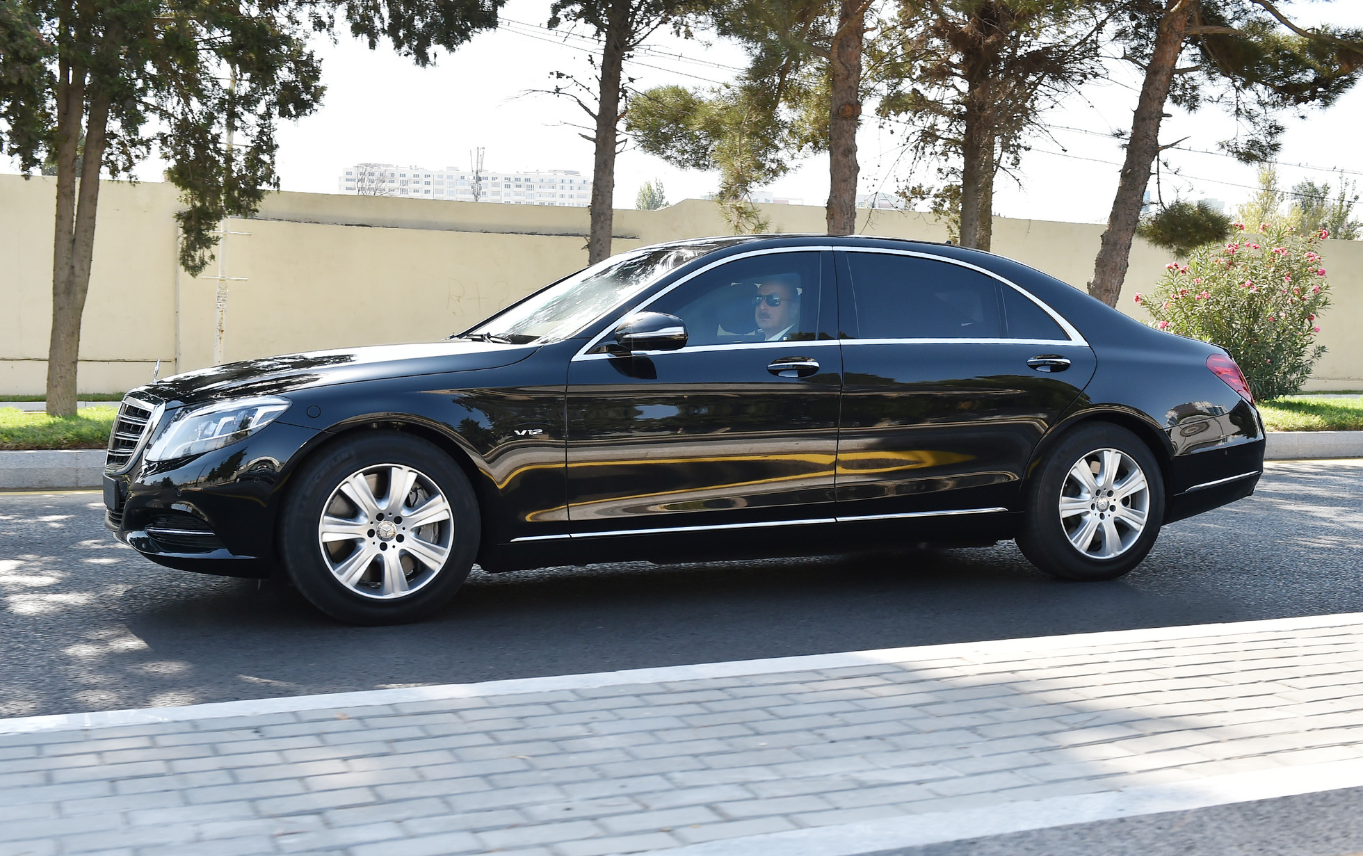 Official car of the President of Azerbaijan